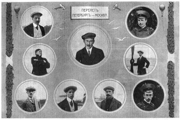 Members of the first group air flight from St. Petersburg to Moscow, 10-11 July, 1911.